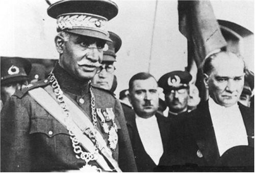 Reza Shah visiting Mustafa Kemal (Atatürk), Turkey, 1934